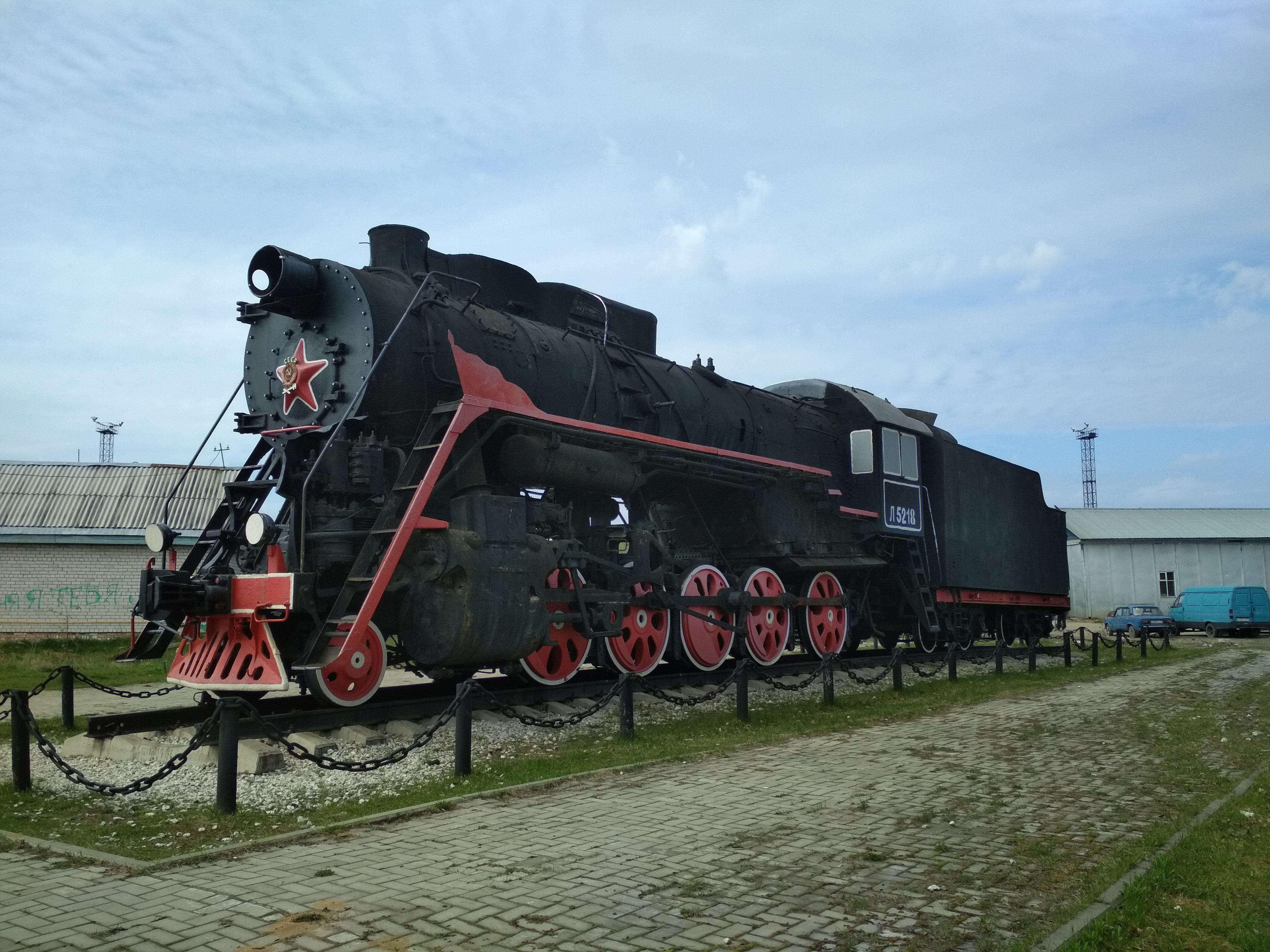 Locomotive L-5218 at Mikun station, Komi Republic.